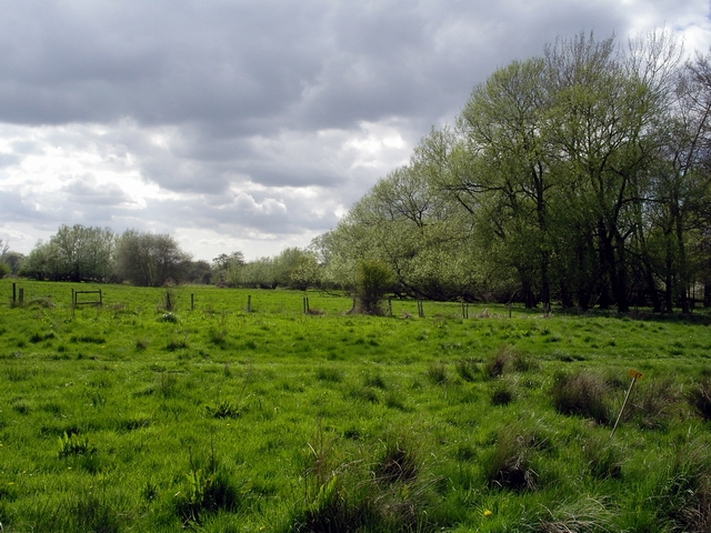 Western end of Bransbury Common. North of Newton Stacey, Bransbury Common is access land that lies between the rivers Dever and Test.